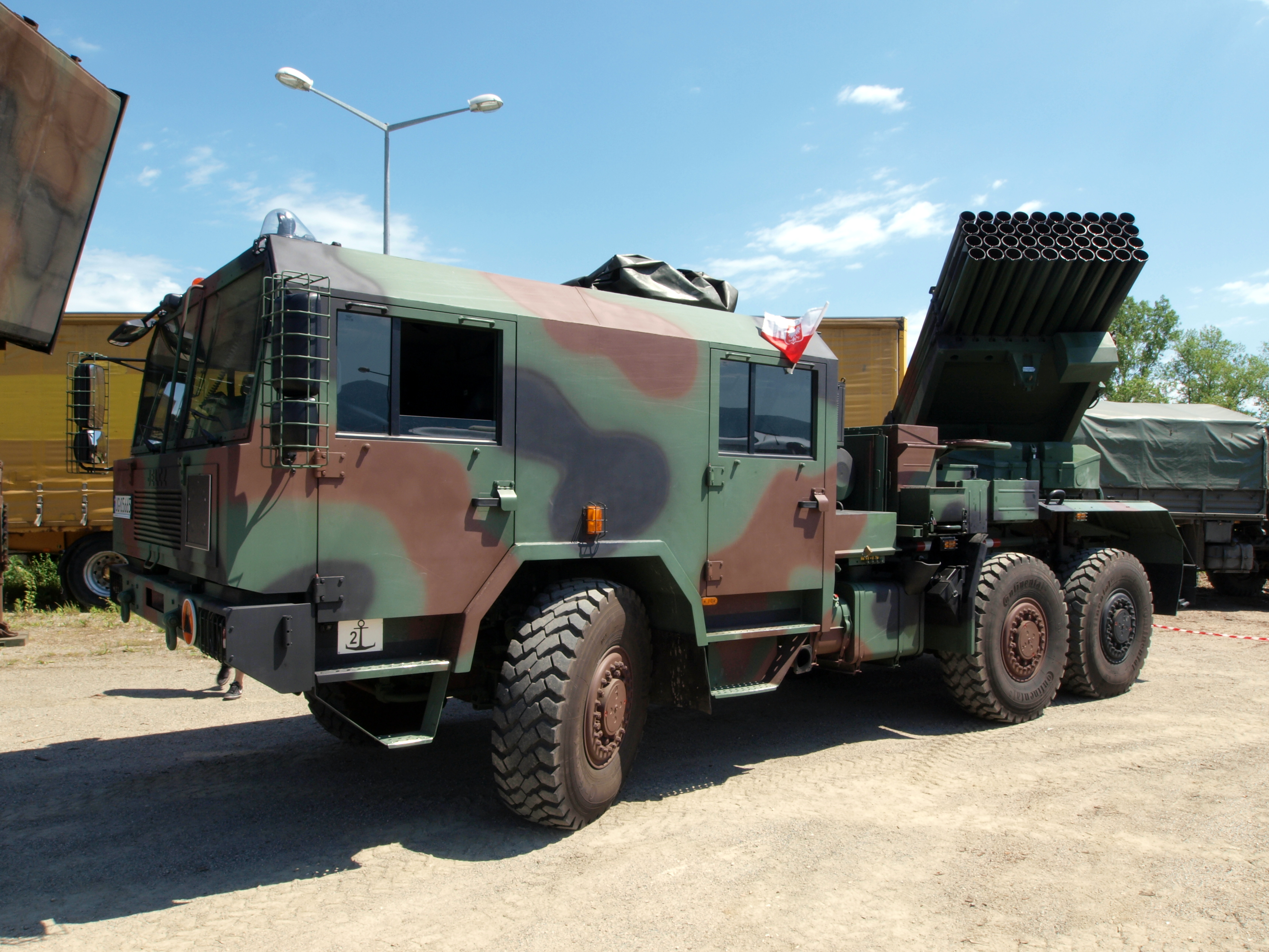 Polish WR-40 Langusta 122mm